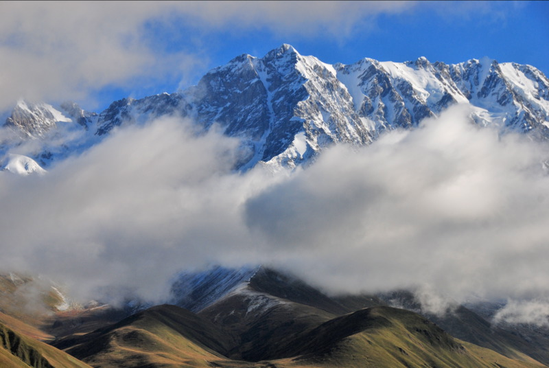 Shkhara